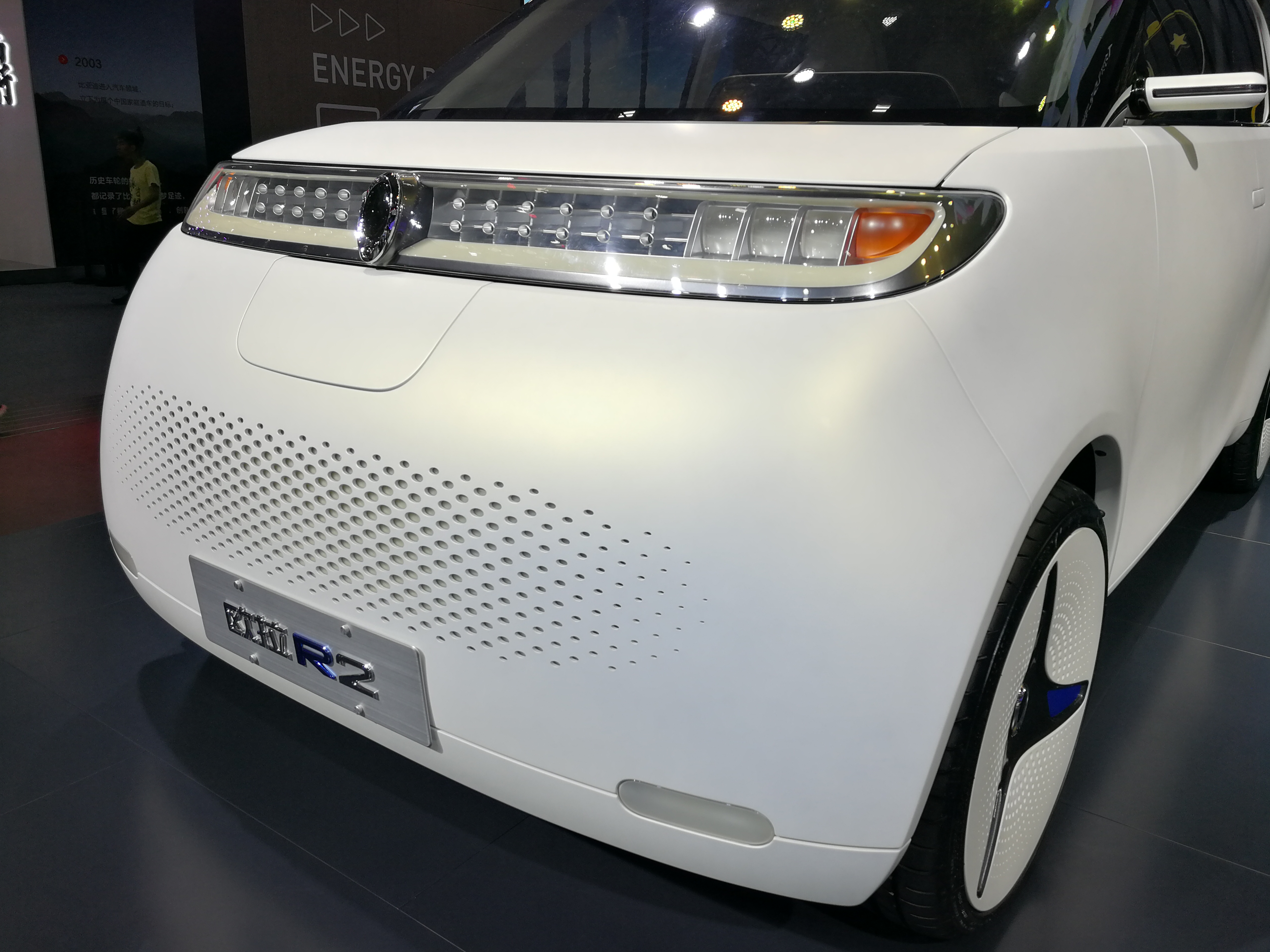 Ora R2 front